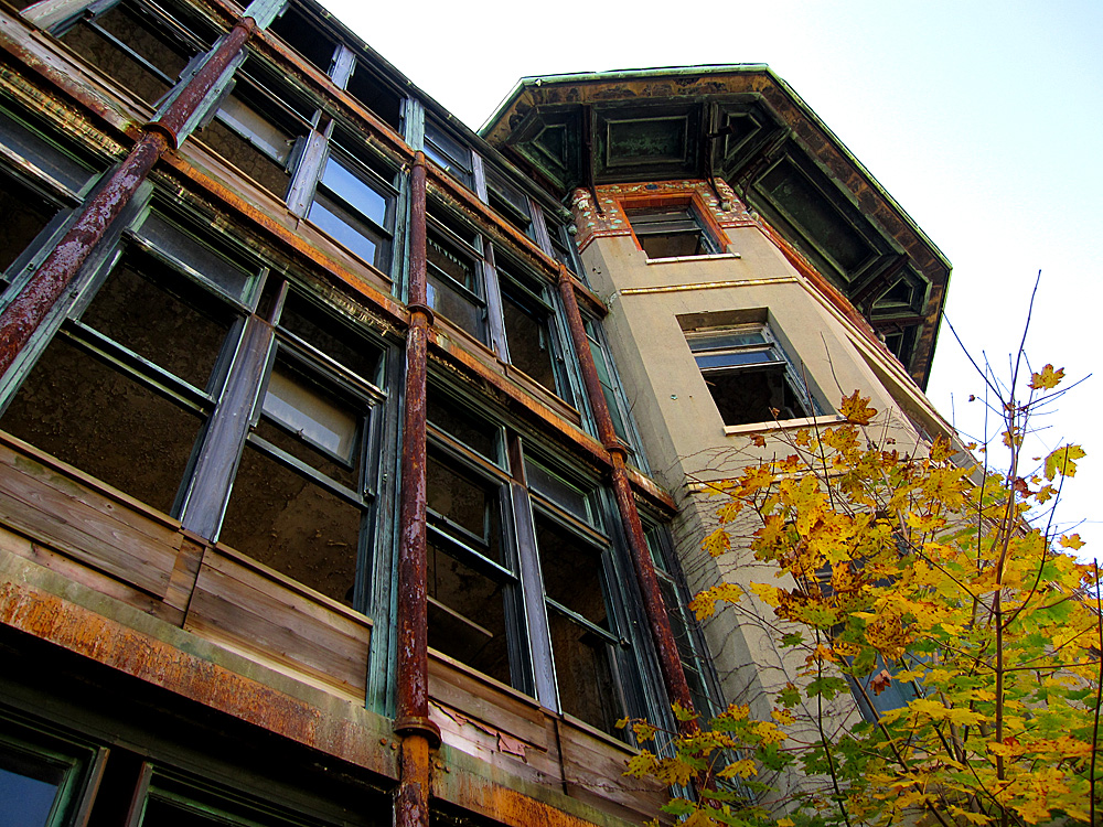 Seaview Hospital 16